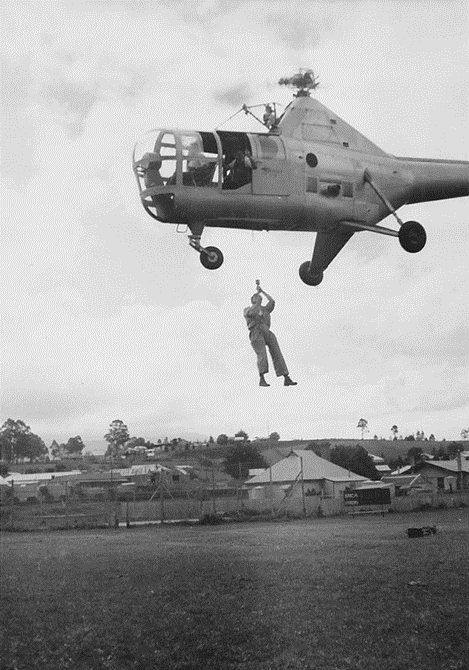 Trailing early helicopters - Erica 1949